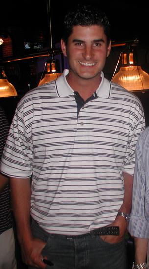 Marc Bulger with members of the 932nd Airlift Wing the evening before a little friendly flag football game. The game included members of the 932nd Airlift Wing playing in Kurt Warner's foundation, First Things First Ultimate Football event. The Air Force Reservists were able to "draft" Marc Bulger to be their quarterback for the competition. VIRIN: 041007-F-9392S-8010